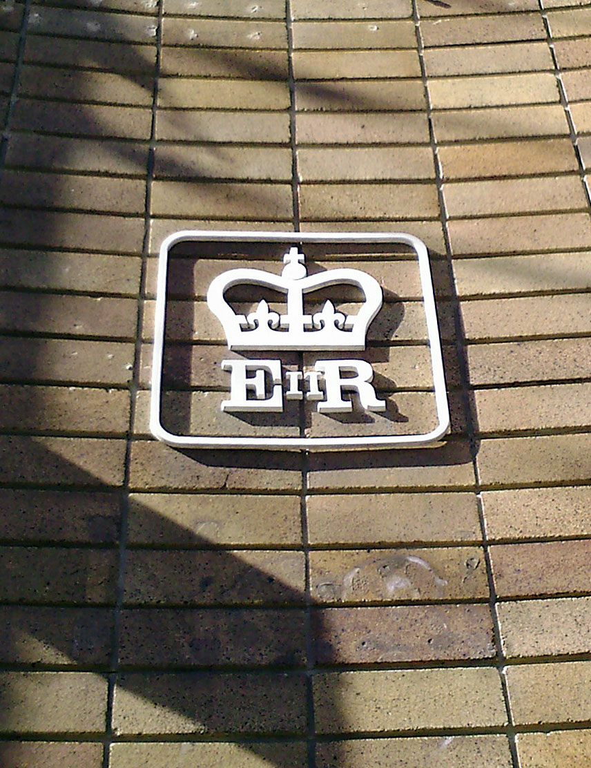 The Royal Cypher of HRH Queen Elizabeth II, shown on a Post Office building in Sydney, New South Wales, Australia.